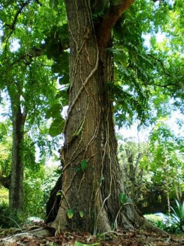 Árbol Nacional de Caoba